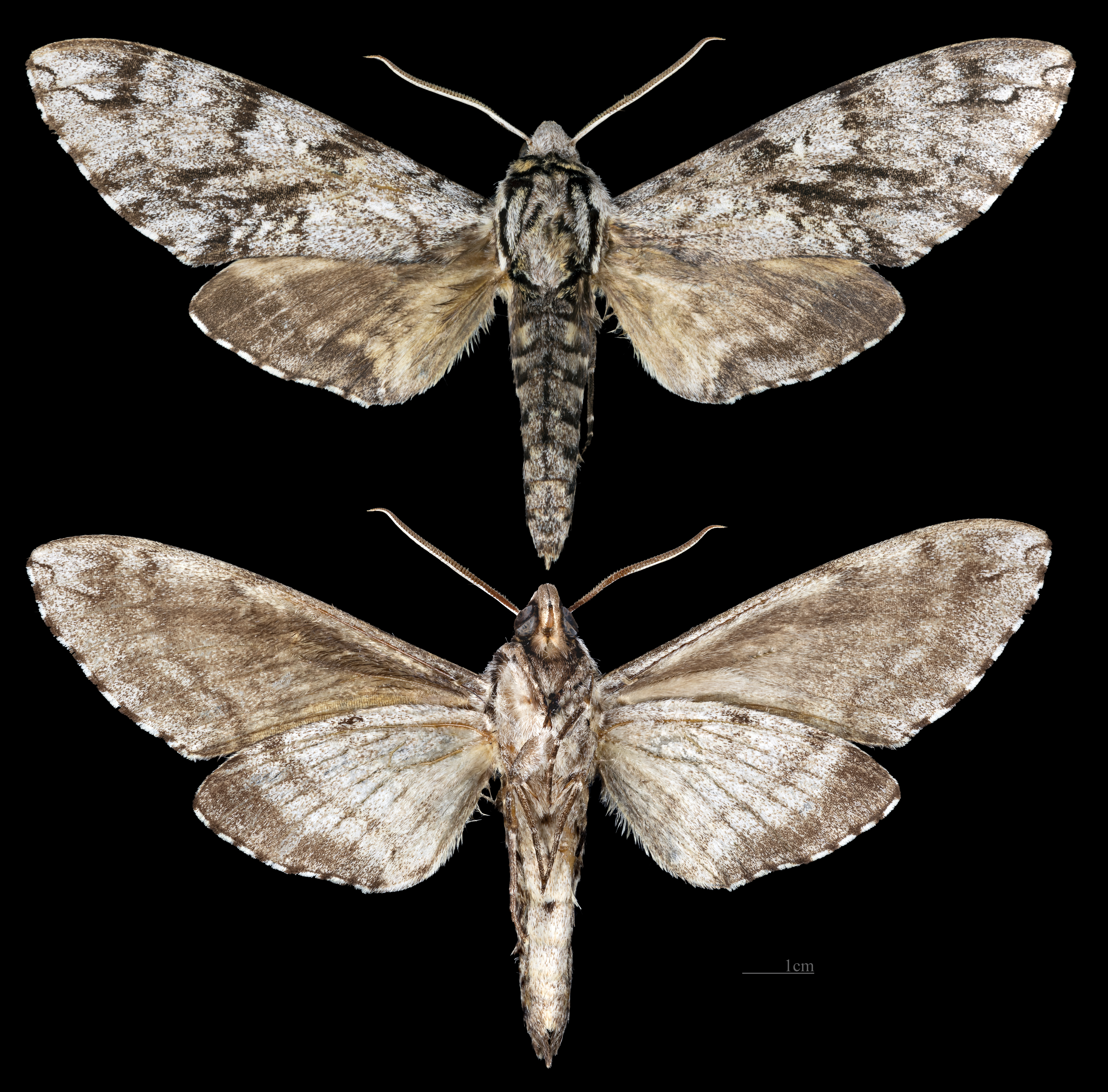 Ceratomia sonorensis - Two views of same specimen Collection of the Mathematician Laurent Schwartz